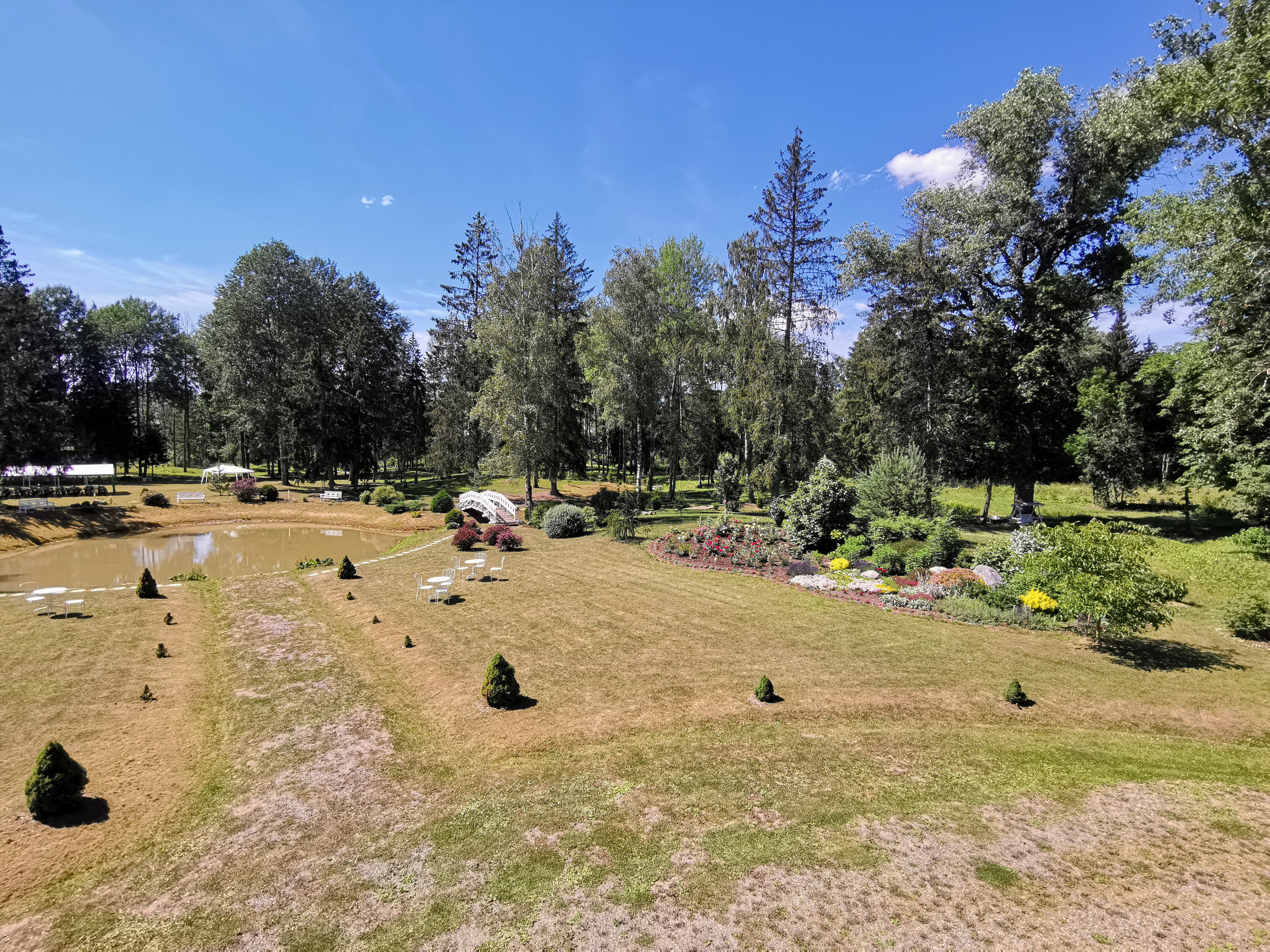 Garden of Dautarai manor